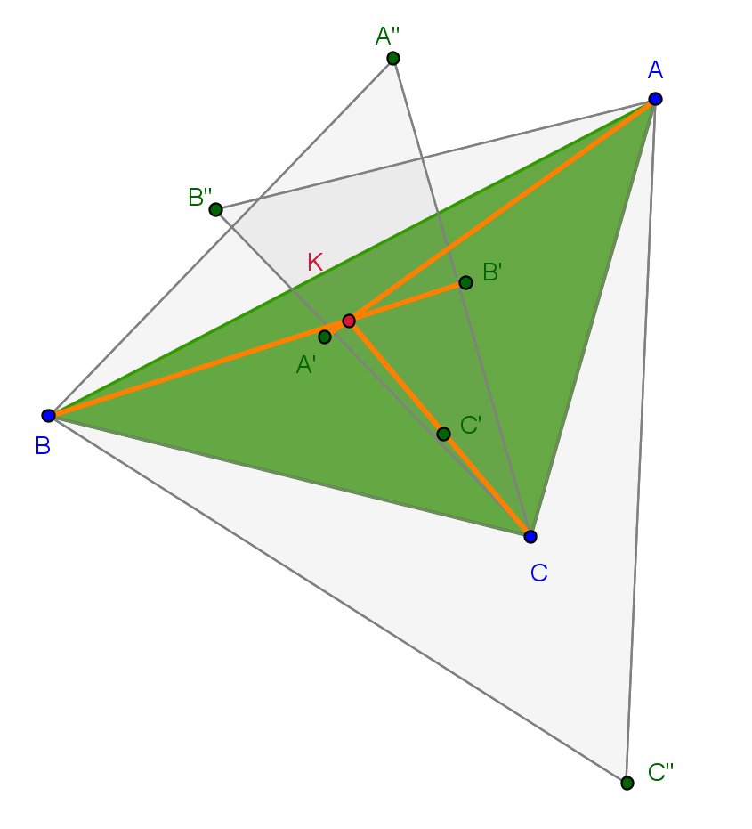 Second Napoleon's point, acute triangle